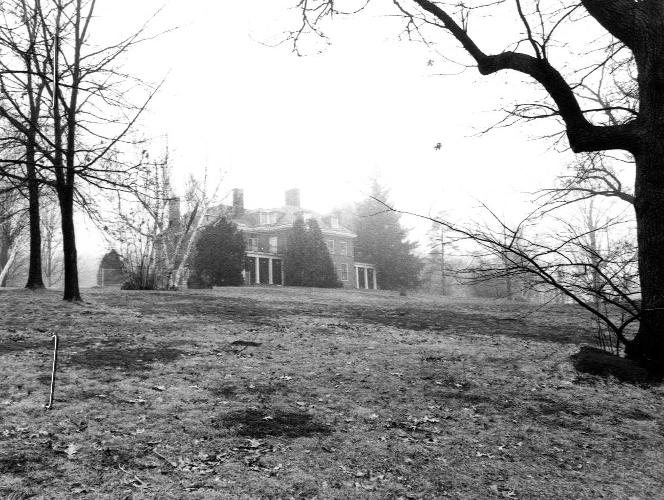 Mt. Prospect School for Boys, Waltham, Massachusetts. This building has been demolished.